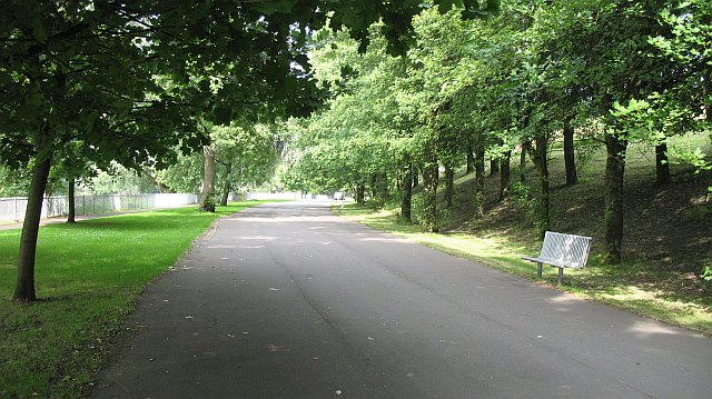 Clyde Walkway, Glasgow Green The walkway, also used by National Cycle Route 75, running around the inside of a meander of the Clyde.